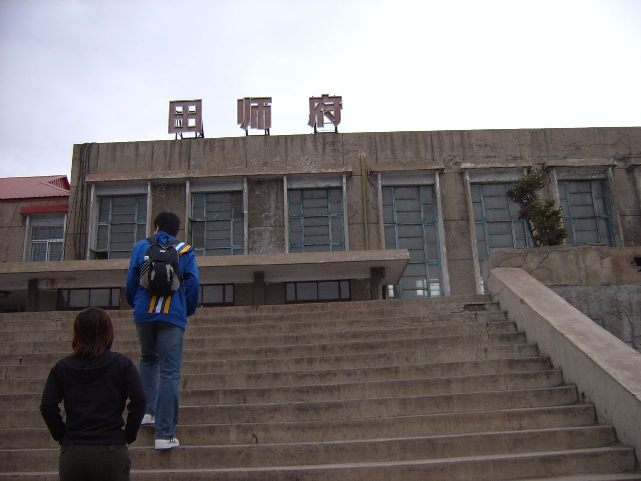 Tianshifu Railway Station 田師府站・田师府站（遼寧省本溪滿族自治縣田師府鎮）